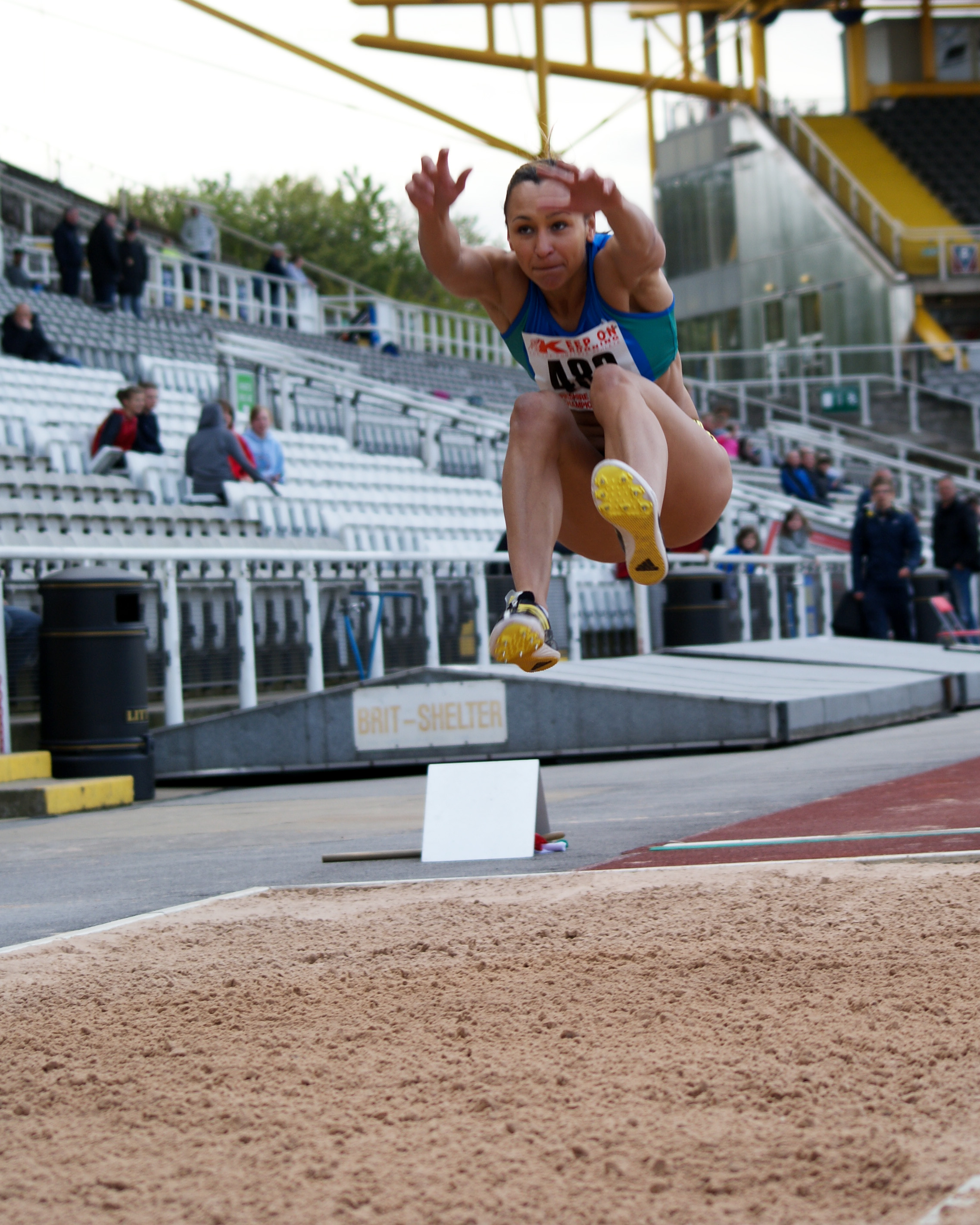 Jessica Ennis, long jump Yorkshire Track and Field Championships-65